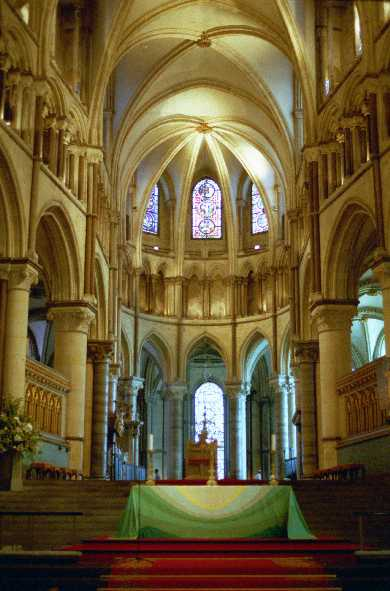 the chair of the archbishop of canterbury